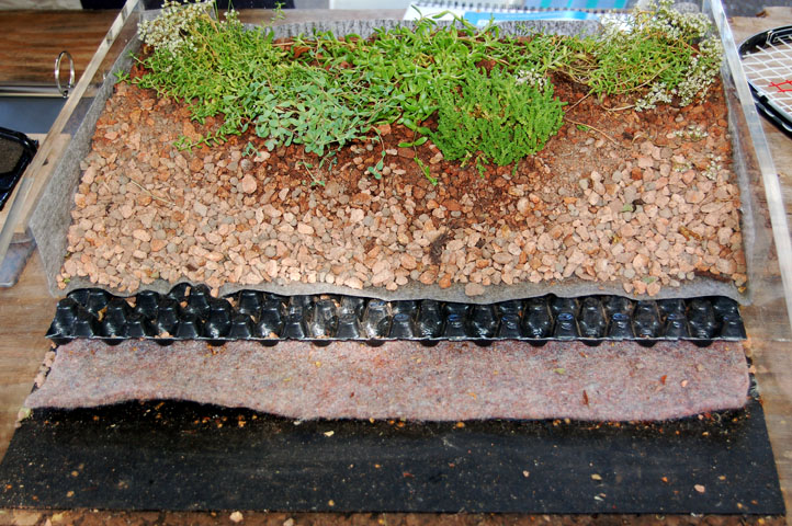 Alumasc green roof system, construction sample on an exhibition.